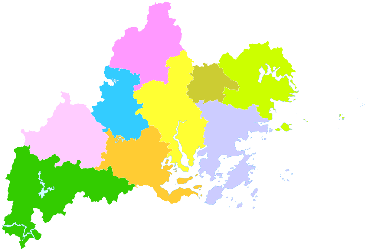 administrative division of Ningde City, Fujian, China